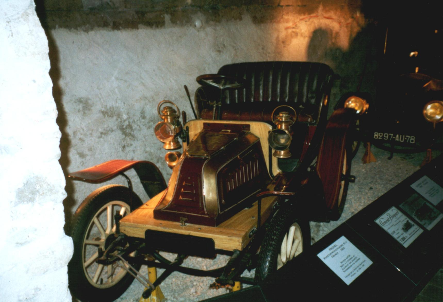 Prunel 1903 (Country of origin: France)